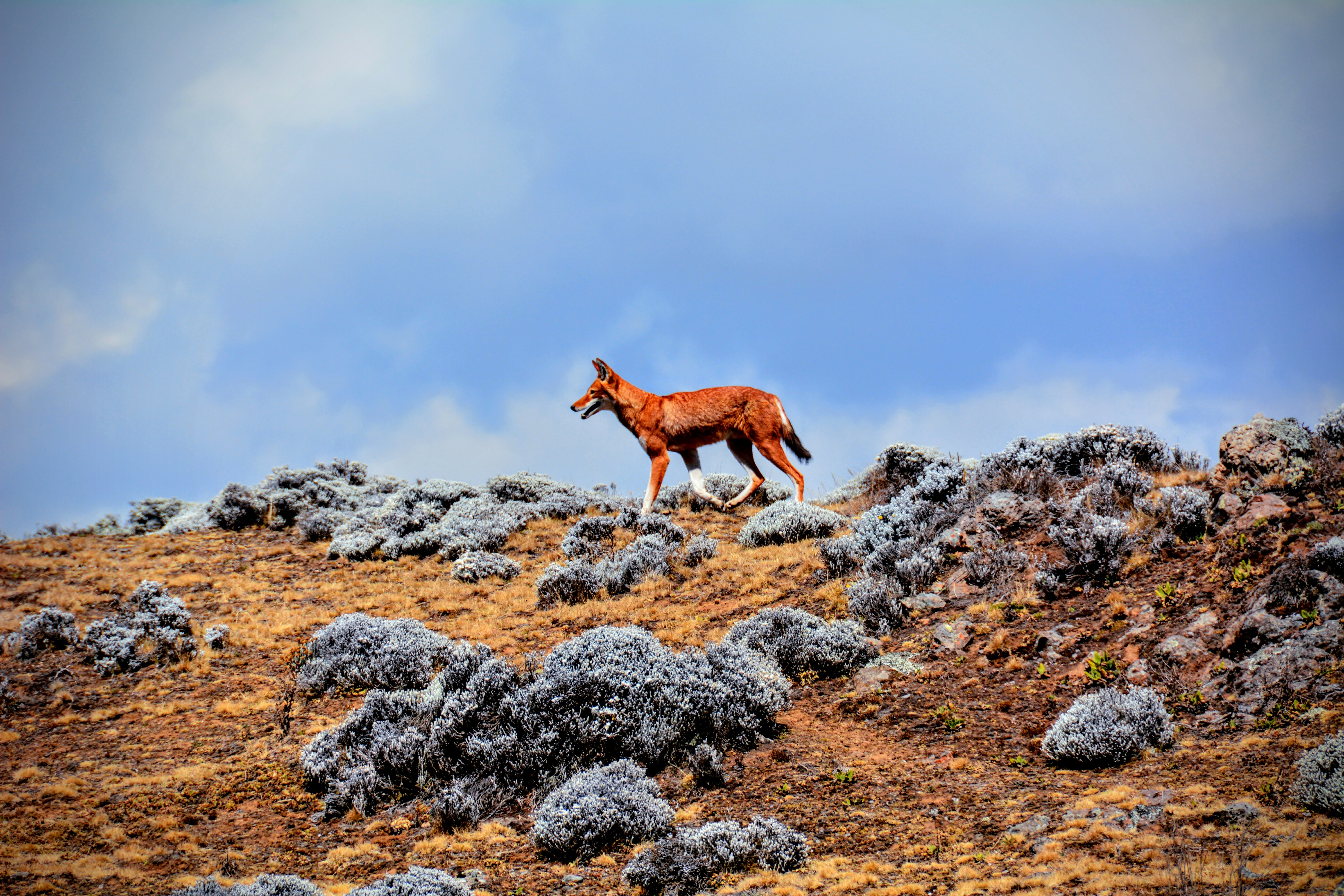 Ethiopian wolf, Bale Mountains National Park.